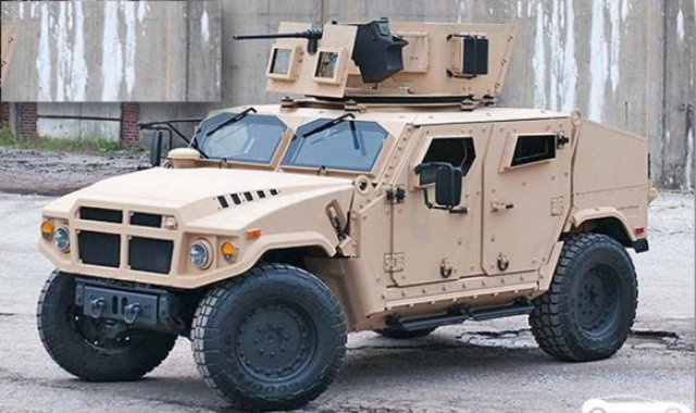 AM General's BRV-O Joint Light Tactical Vehicle, an unsuccessful candidate for the U.S. Army's JLTV requirement which was awarded to Oshkosh